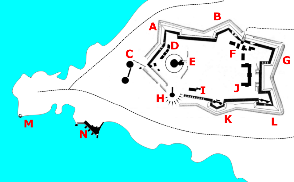 Pendennis Castle diagram - modern